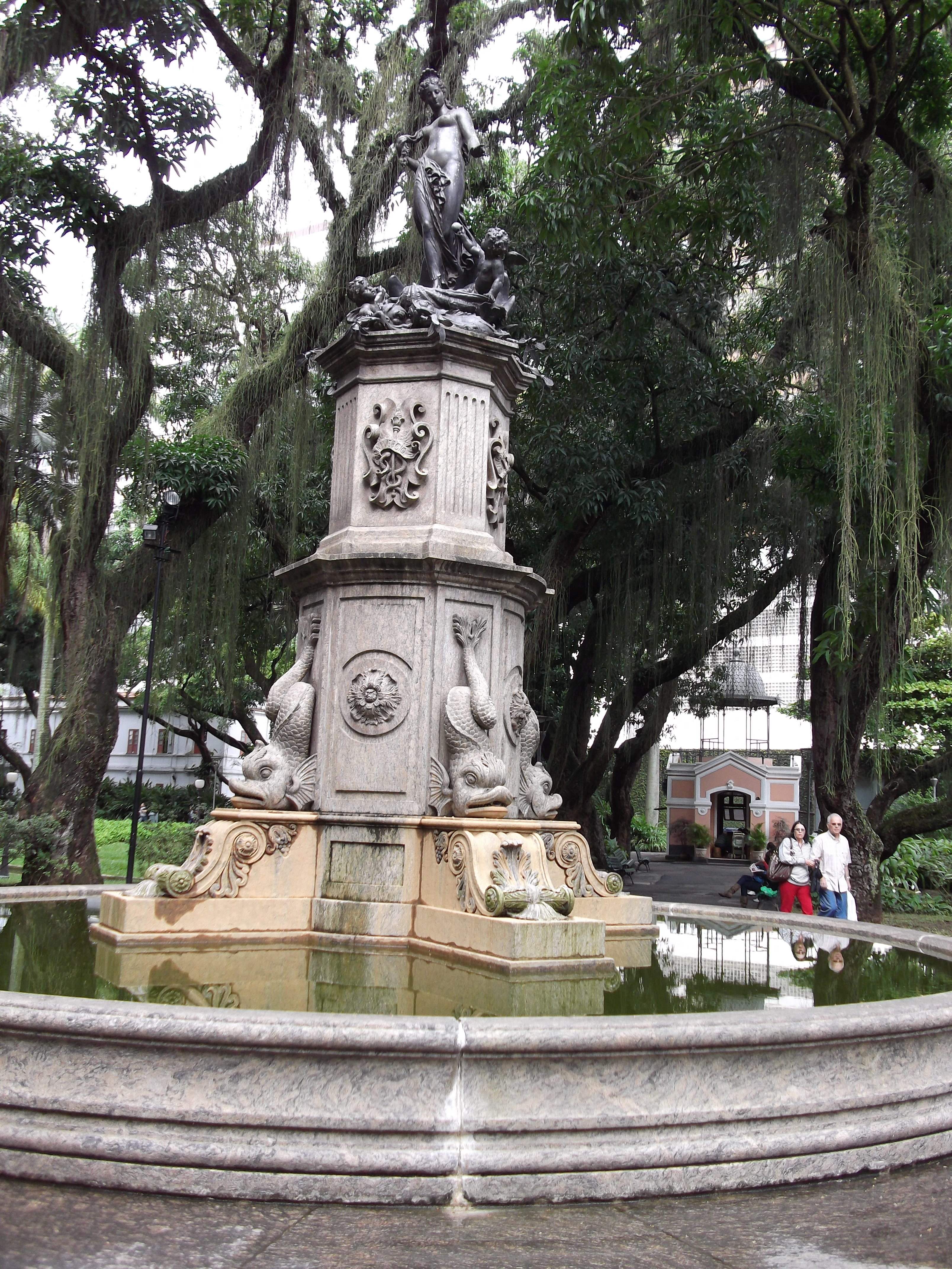 Palácio do Catete : Jardins : Fonte